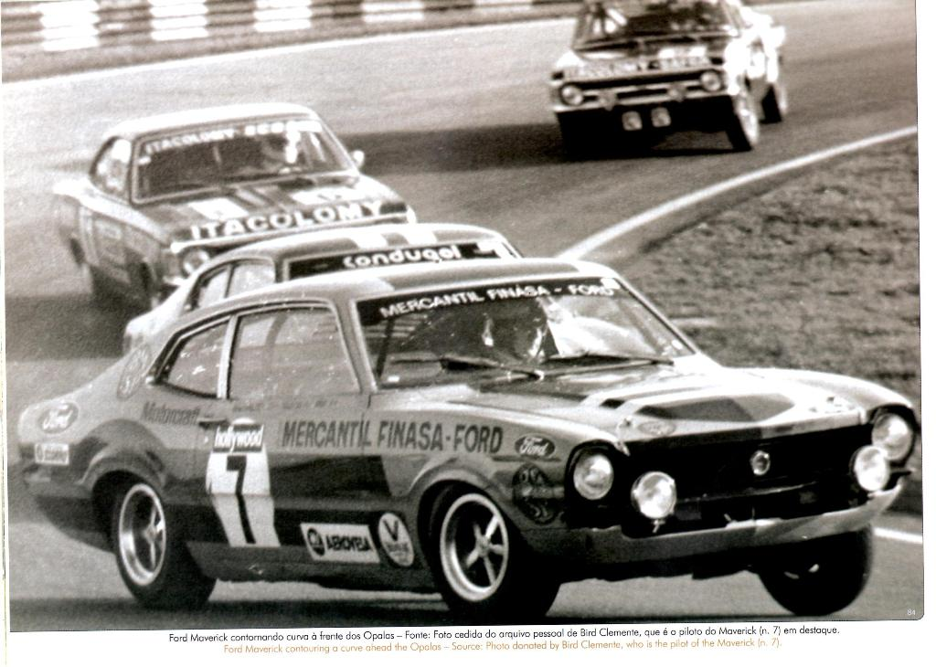 These Mavericks was used in Divisions 1 and 3 a series of touring car racing in Brazil between 1973-1979.